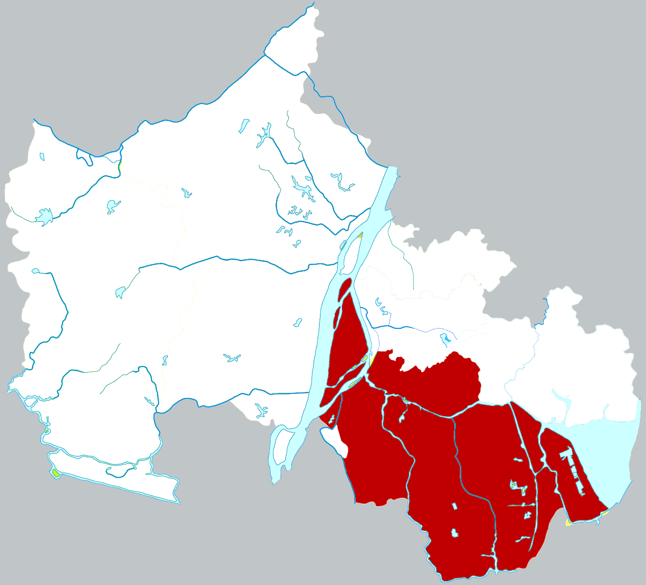 Location of Dangtu county in Ma'anshan city, China